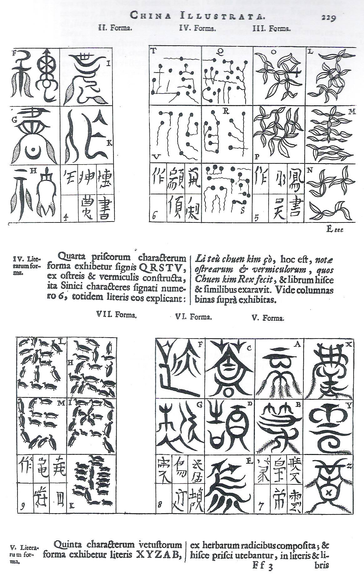 A page from Athanasius Kircher's China Illustrata, showing some fanciful Chinese scripts